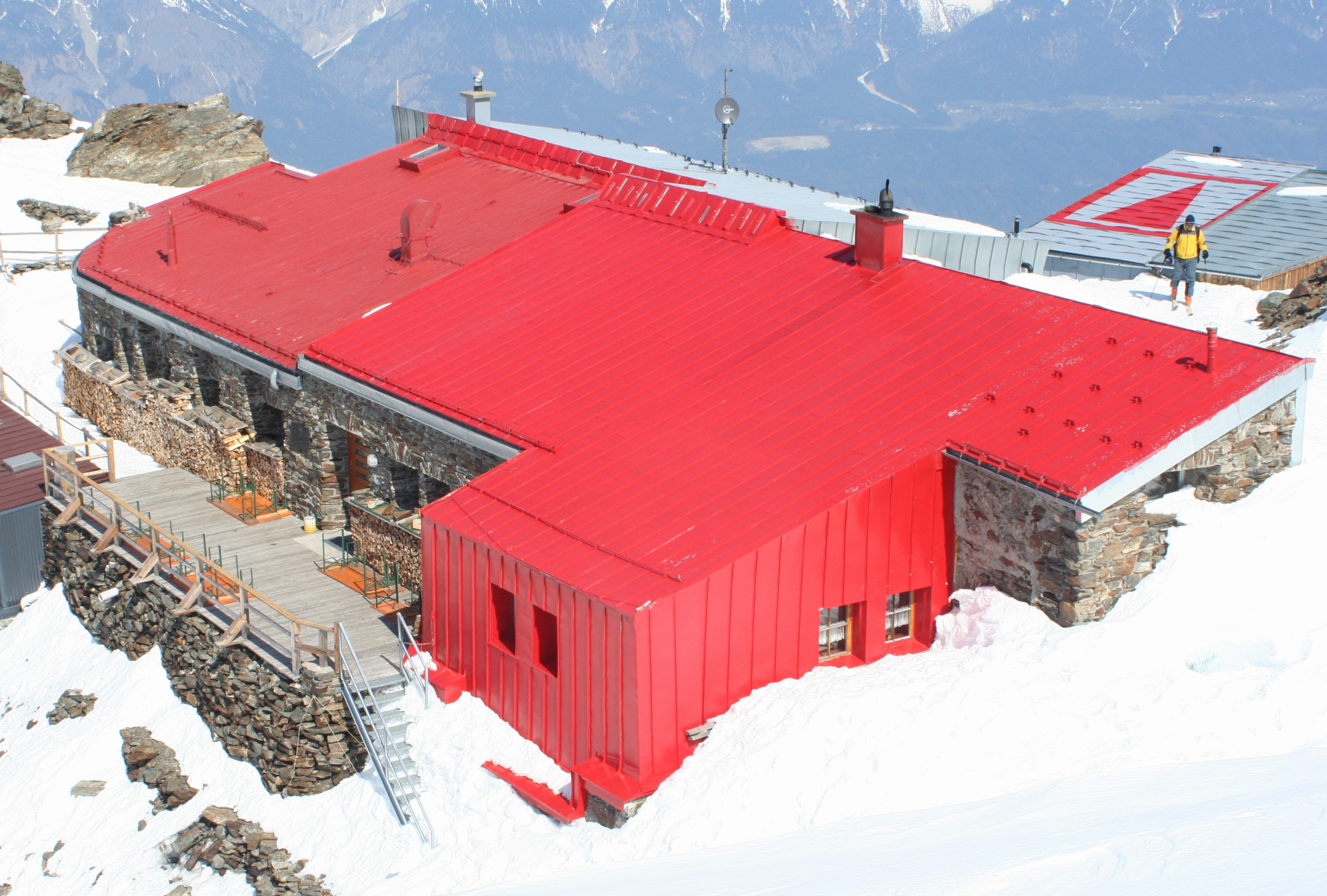 The Glungezerhütte (2610m) in the Tuxer Alpen